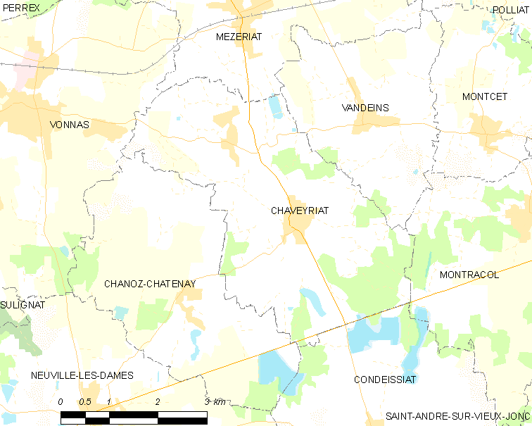 Map of French commune: Chaveyriat Map commune FR insee code 01096.png